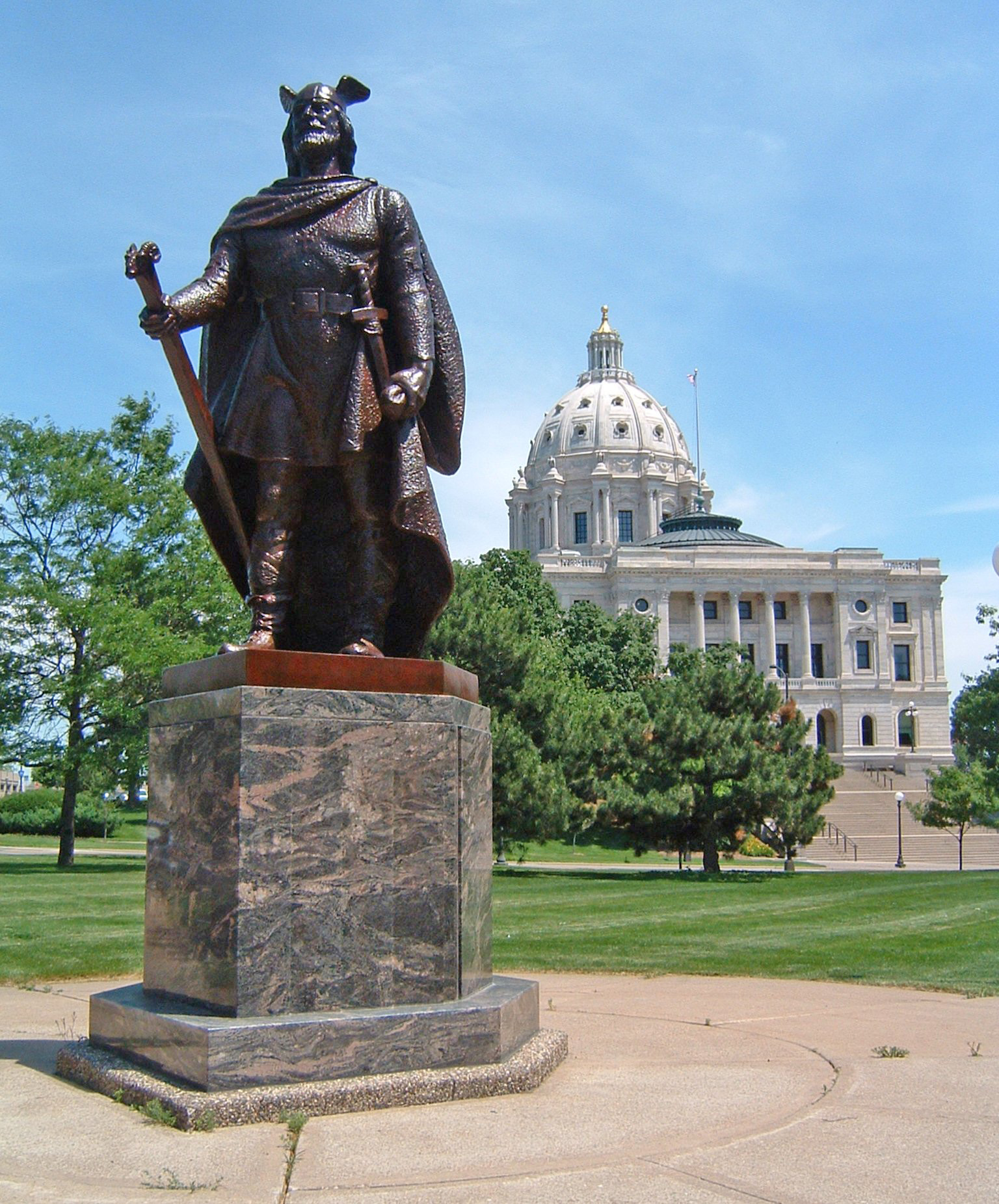 Viking Leif Erikson by John K. Daniels, 1948-49, near the Minnesota State Capitol. Photo taken on June 22, 2005 by User:Mulad. Hereby released into the public domain.